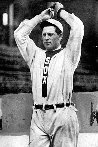 Chicago White Sox pitcher Ed Walsh